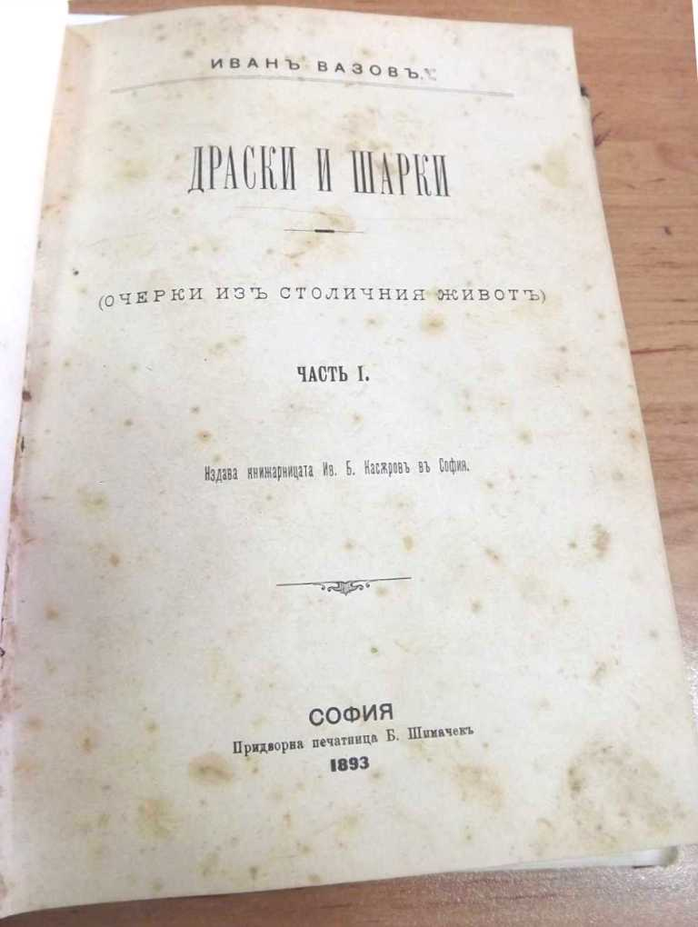 Home page "scratch pattern" (1893), Ivan Vazov